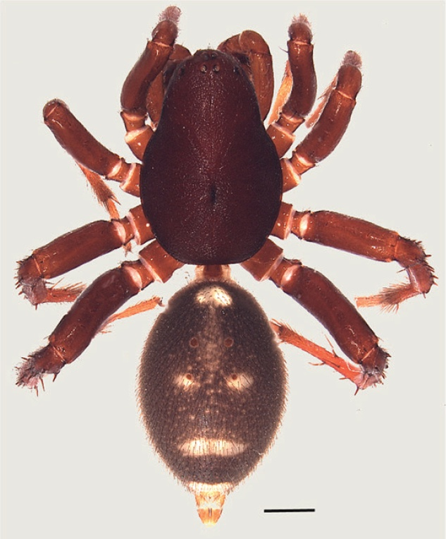 Palindroma morogorom, male, dorsal view. Scale bar = 1 mm